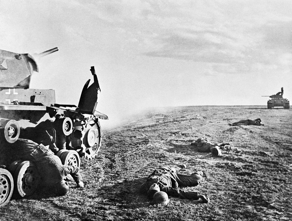 “Tank fight near Stalingrad”. Tank fight near Stalingrad.